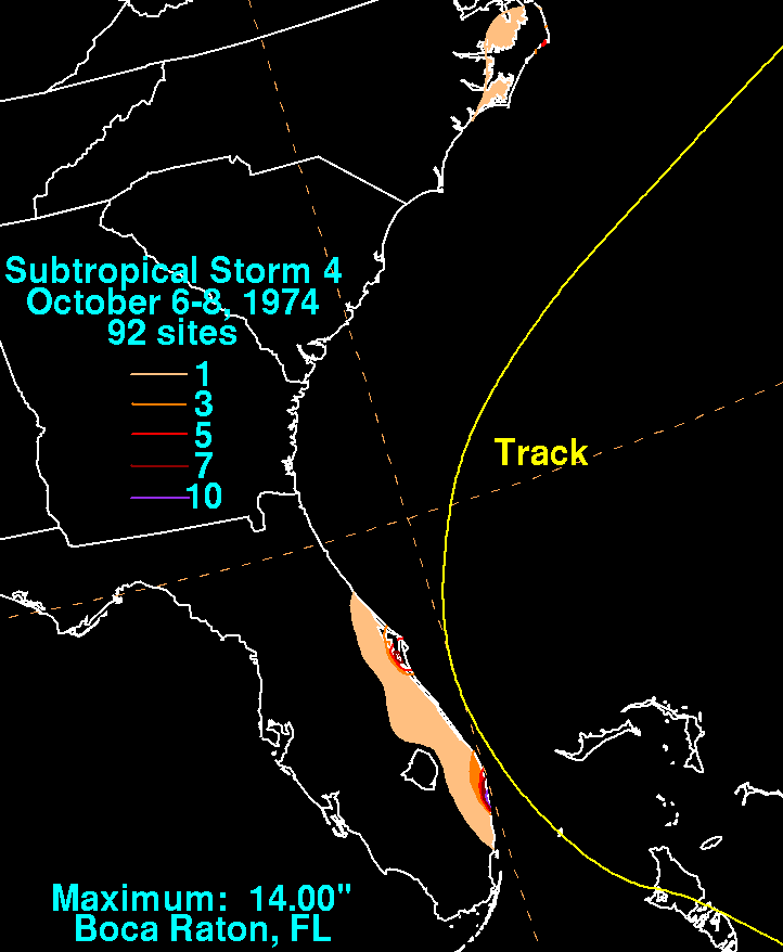 Storm total rainfall map of Subtropical Storm Four during October 1974.